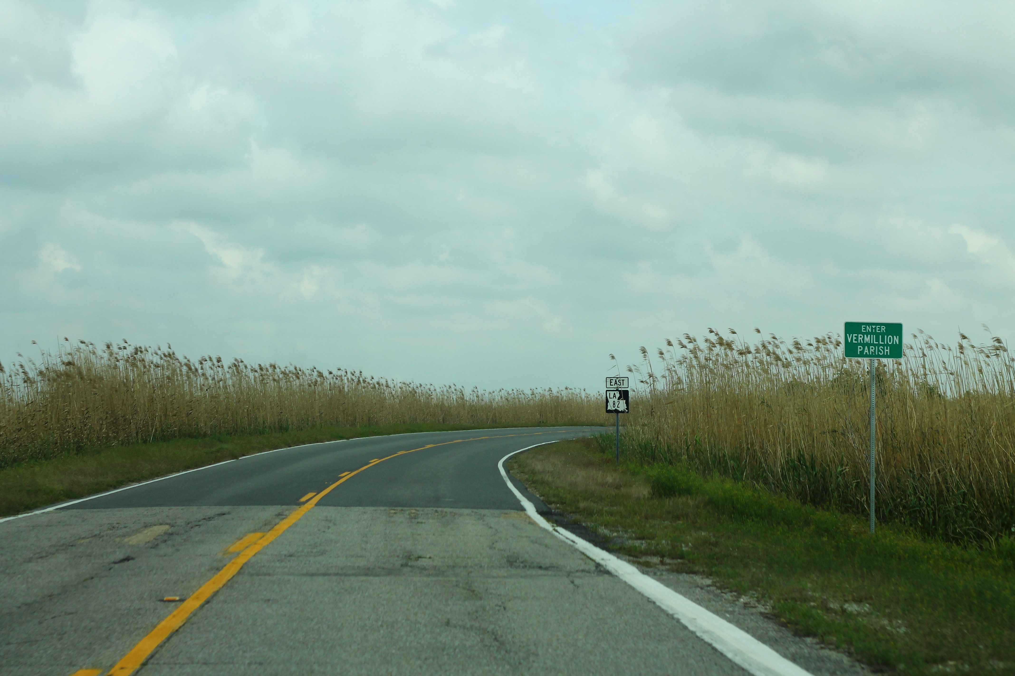 Eastbound on Louisiana Highway 82 between Vermilion Parish and Cameron Parish.